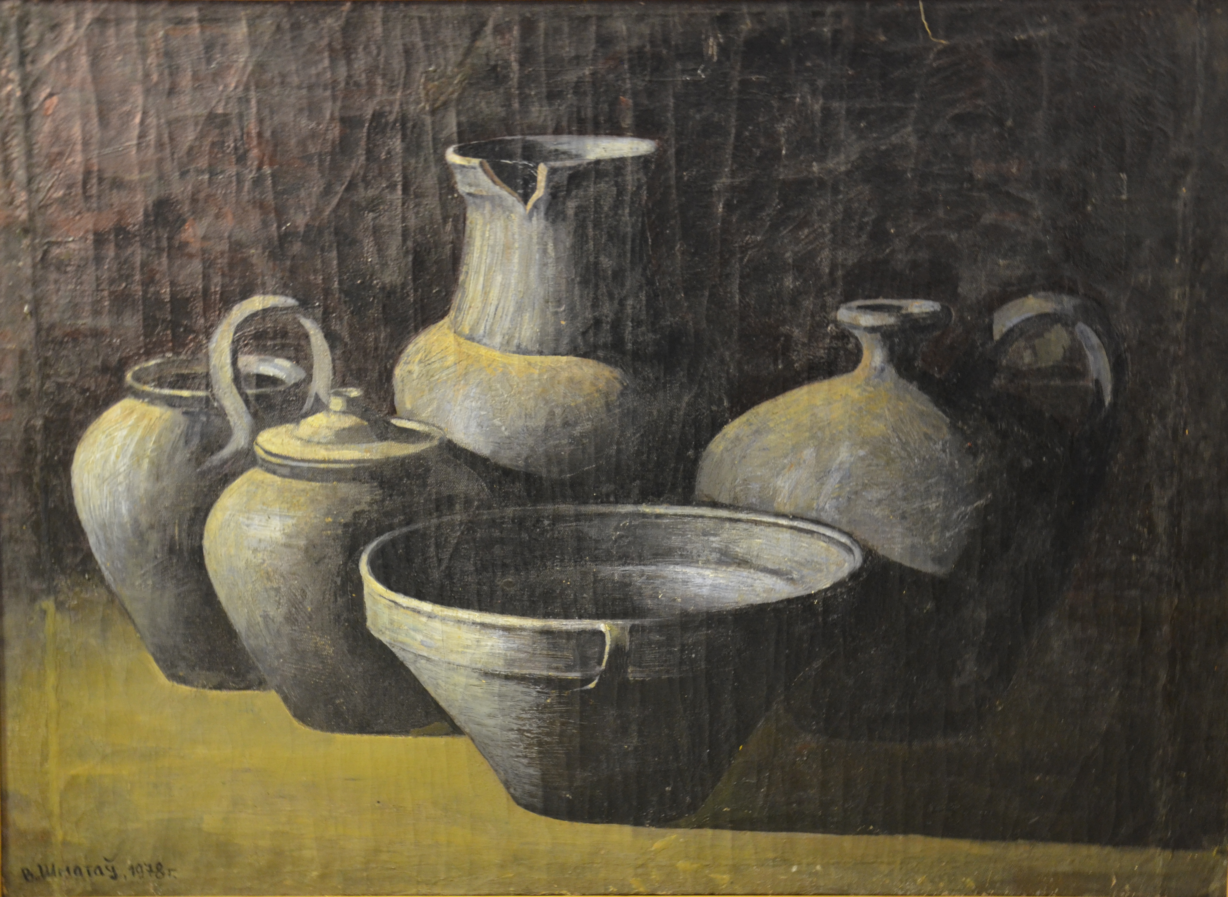 Belarusian artist Viktar Smataŭ. "The Belarusian Ceramics", 1987. Oil on canvas, 80 x 100 cm.